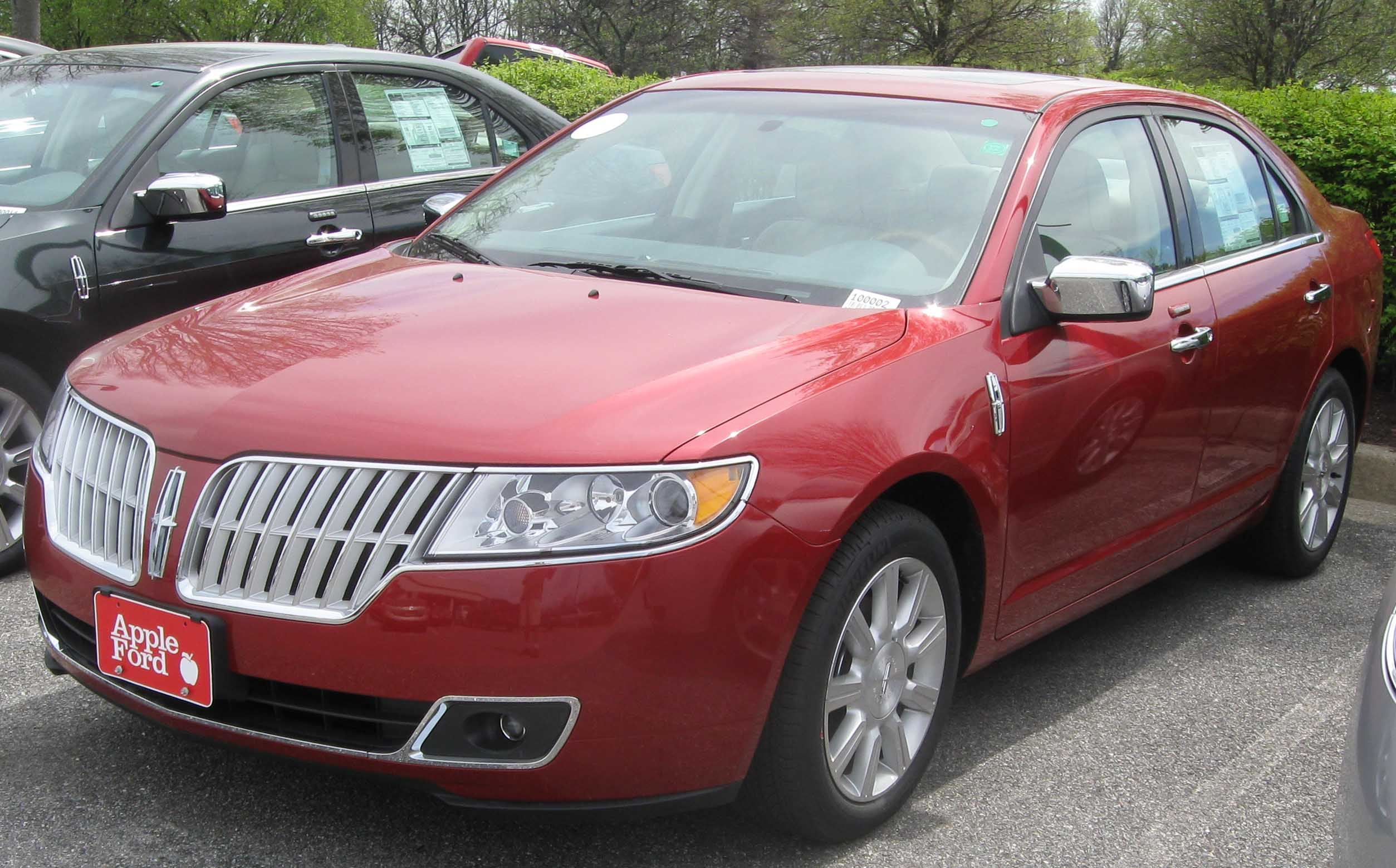 2010 Lincoln MKZ photographed in Columbia, Maryland, USA.